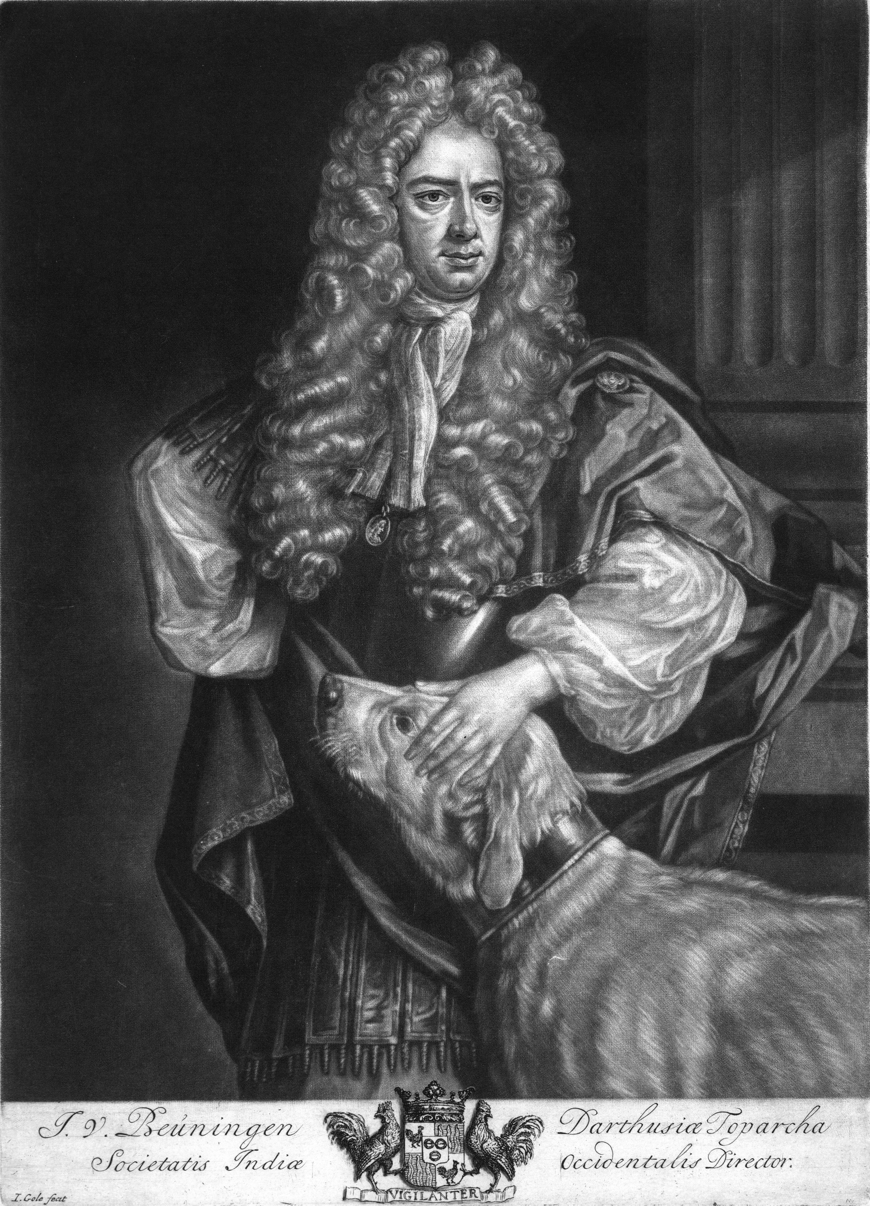 Jan van Beuningen (1667-1720) drawing c. 1667 - c. 1724